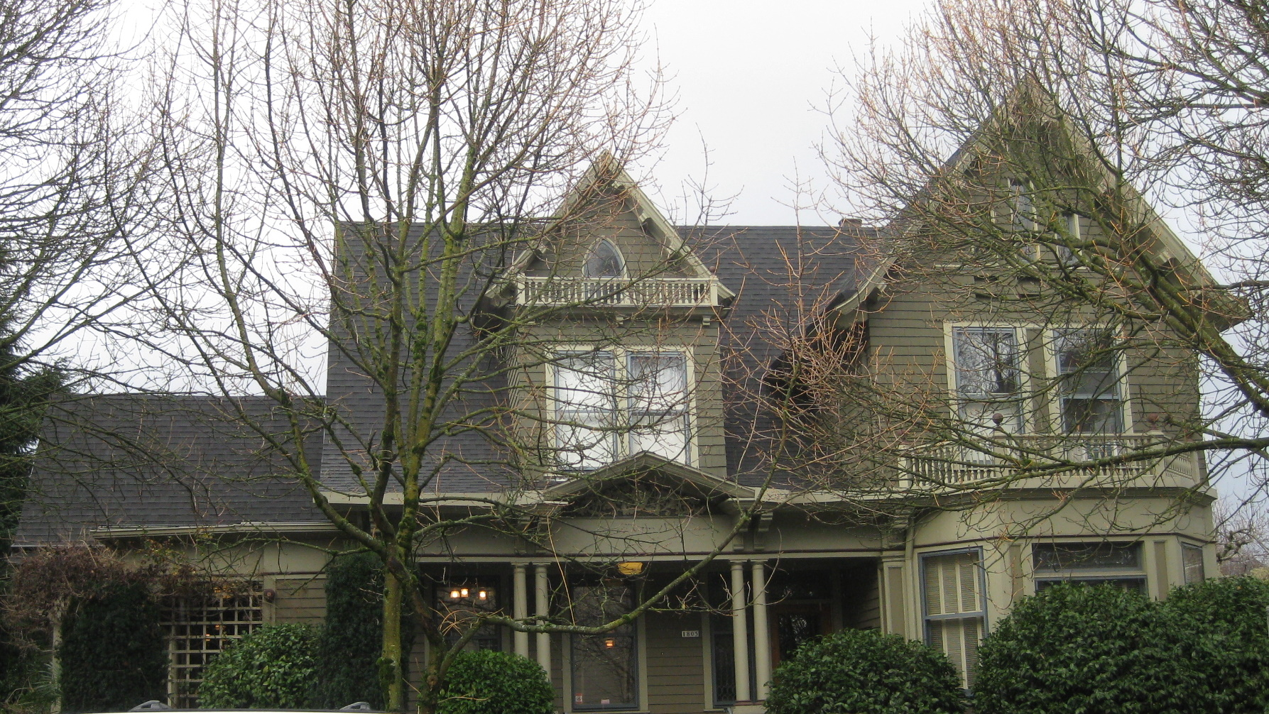 C.A. Landenberger House in NW Portland (1805 NW Glisan Street), listed in the National Register of Historic Places„“